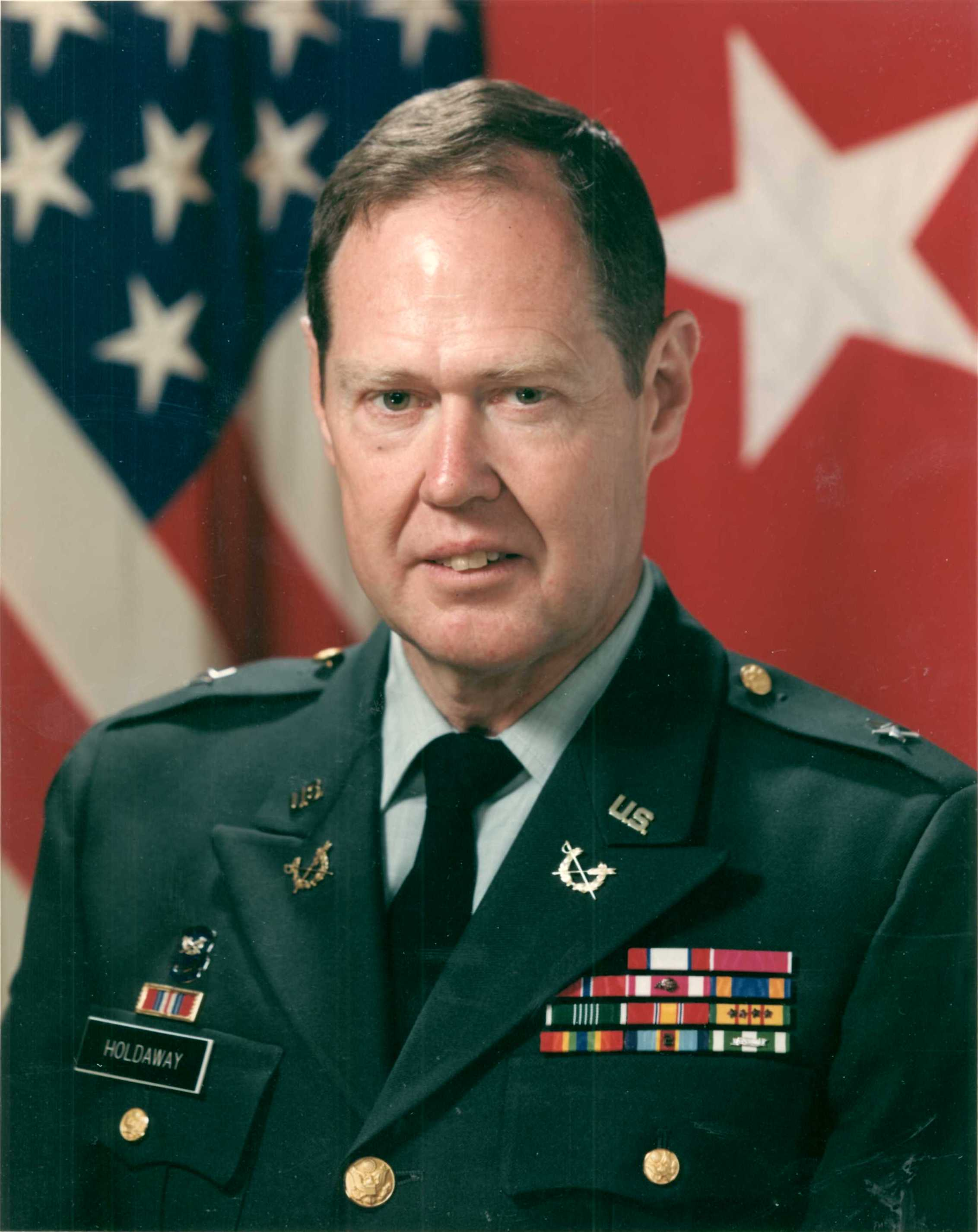 Brig. Gen. Ronald M. Holdaway